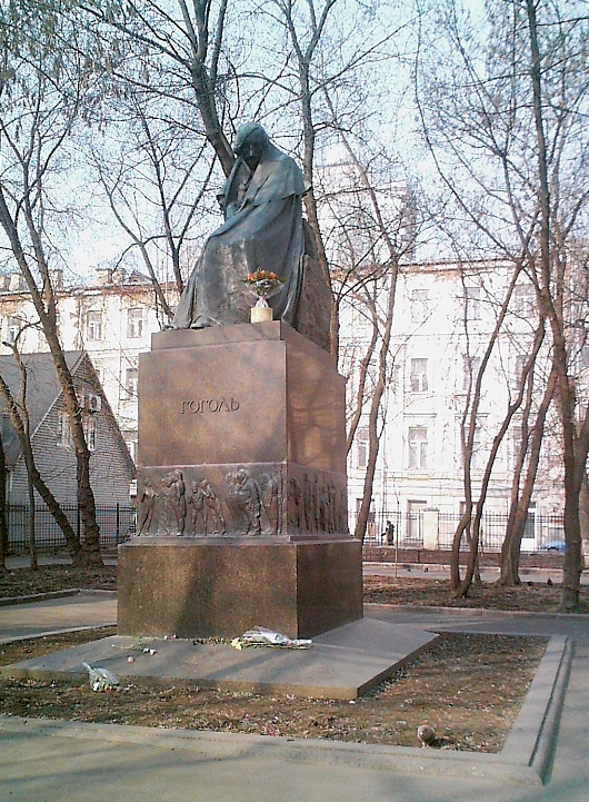 Monument of Nikolai Gogol writer of Russia in Moscow (court-yard), Nikitsky blv, 7-a